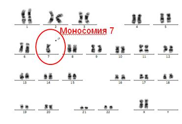 Myelodysplastic syndrome